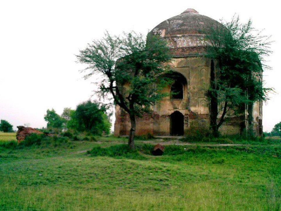 Shrine of Shaikh Ali Baig, Mandi Bahauddin, Pakistan.